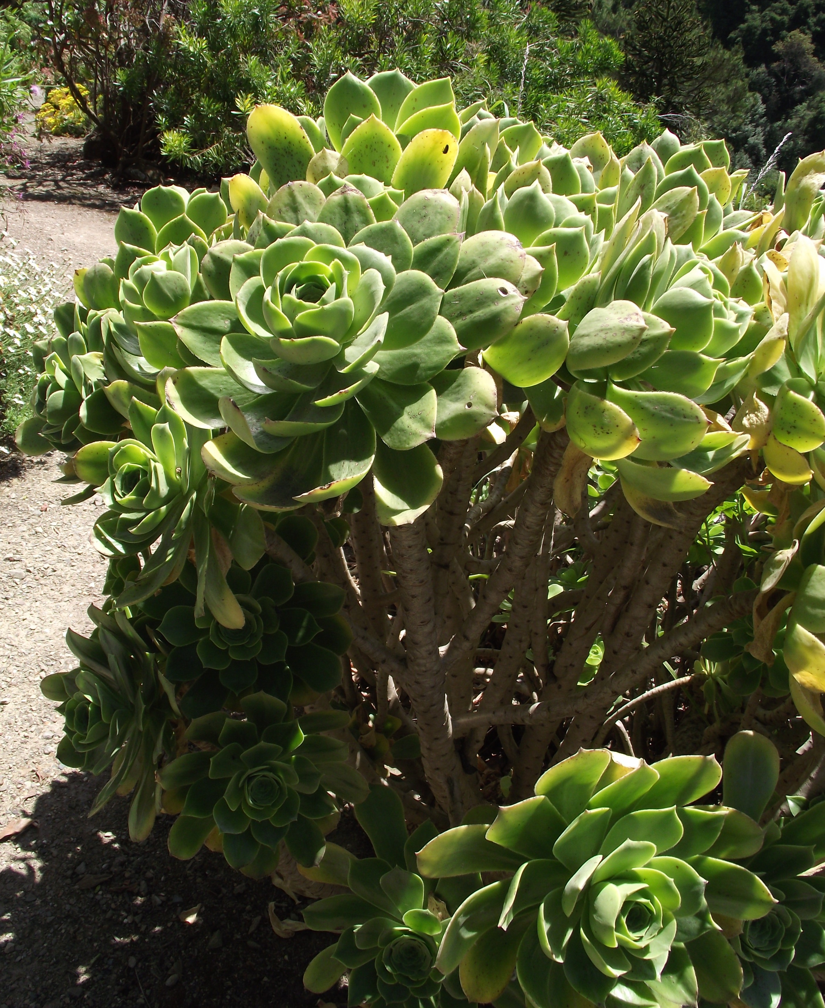 Aeonium balsamiferum in the UC Botanical Garden, Berkeley, California, USA. Identified by sign.